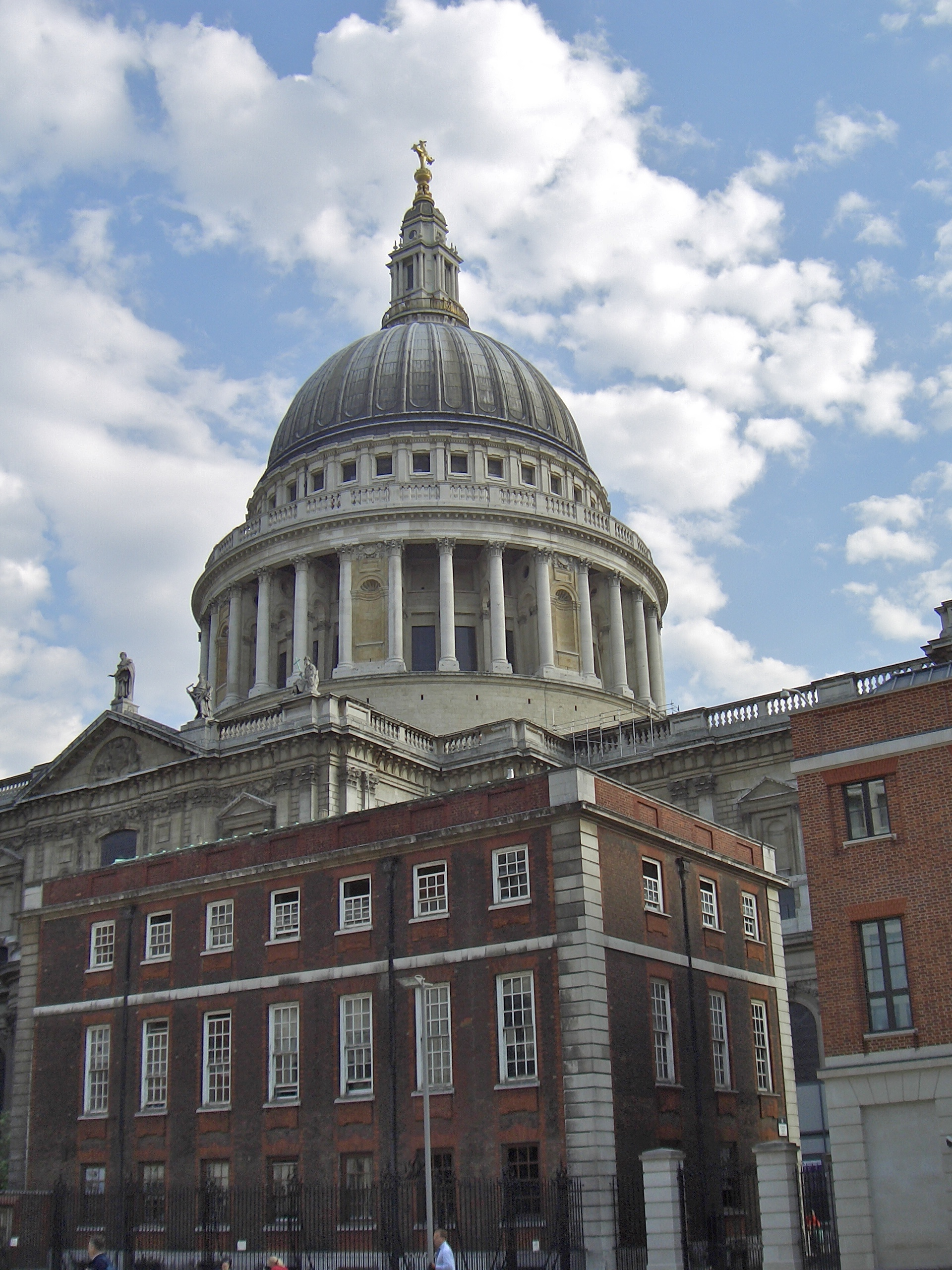 Saint Paul's cathedral, London